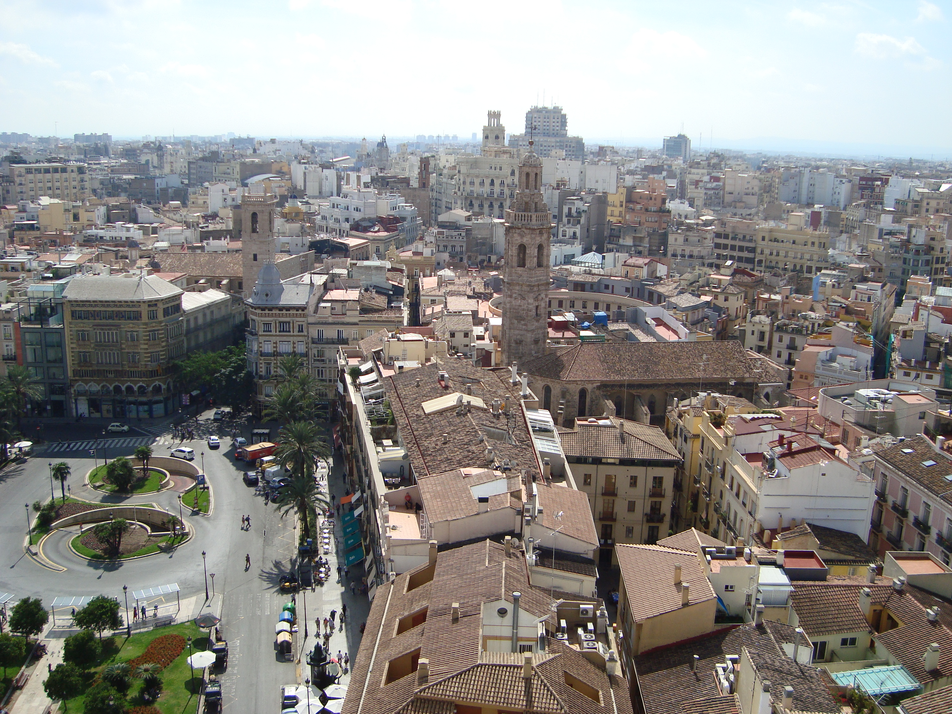 Valencie